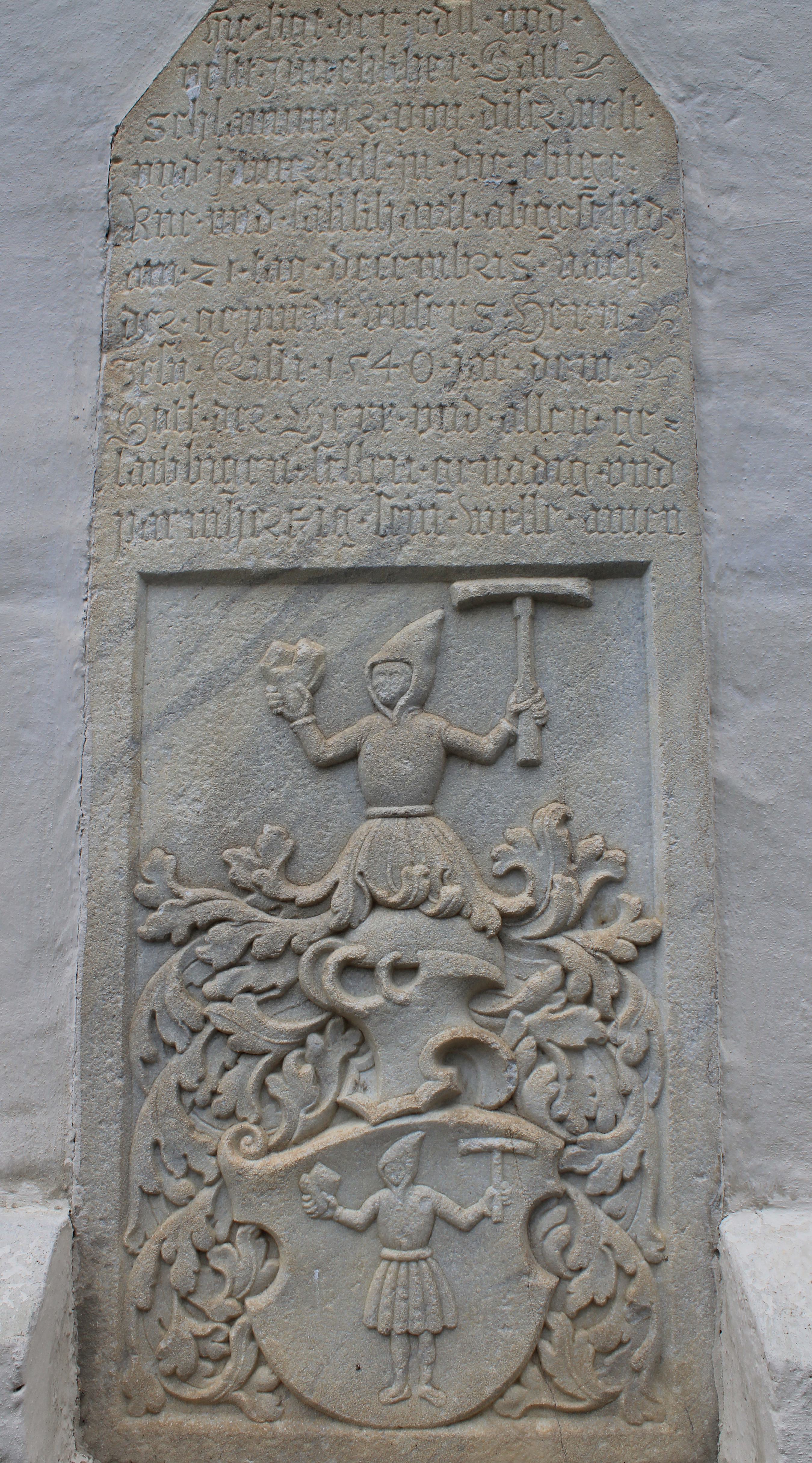 Parish church in Obervellach - Epitaph